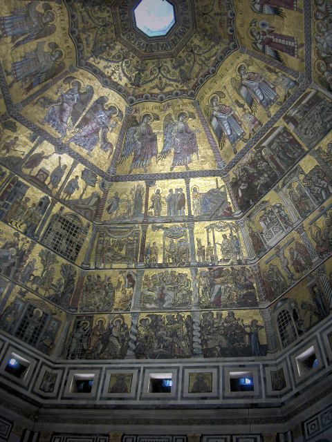 Mosaic ceiling of the baptistry; Florence, Italy Own work - photo made on 13 October 2005